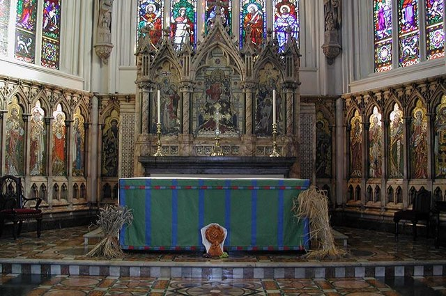 St Peter, Leeds Parish Church - Sanctruary